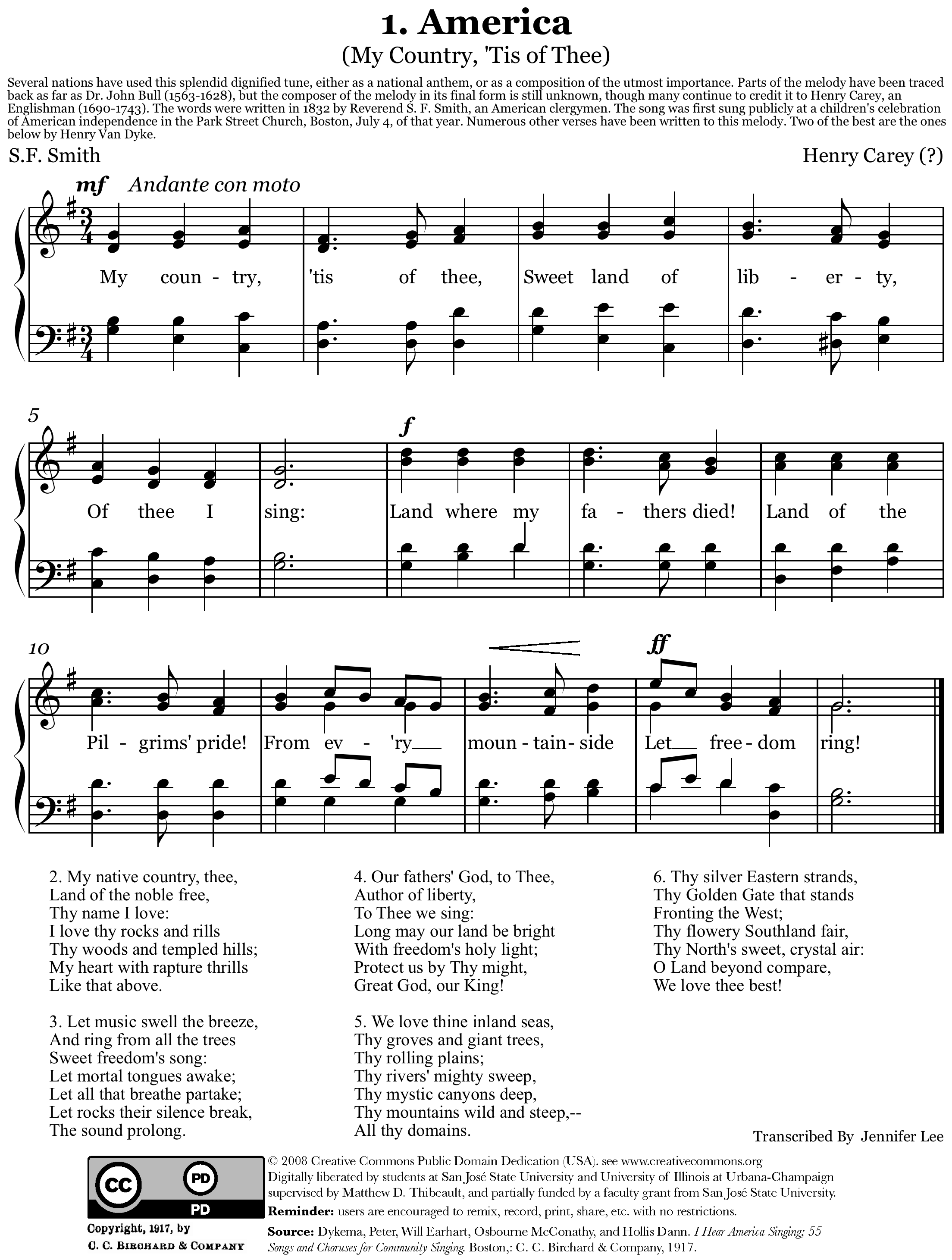 Public domain edition of America (My Country 'Tis of 'Thee)